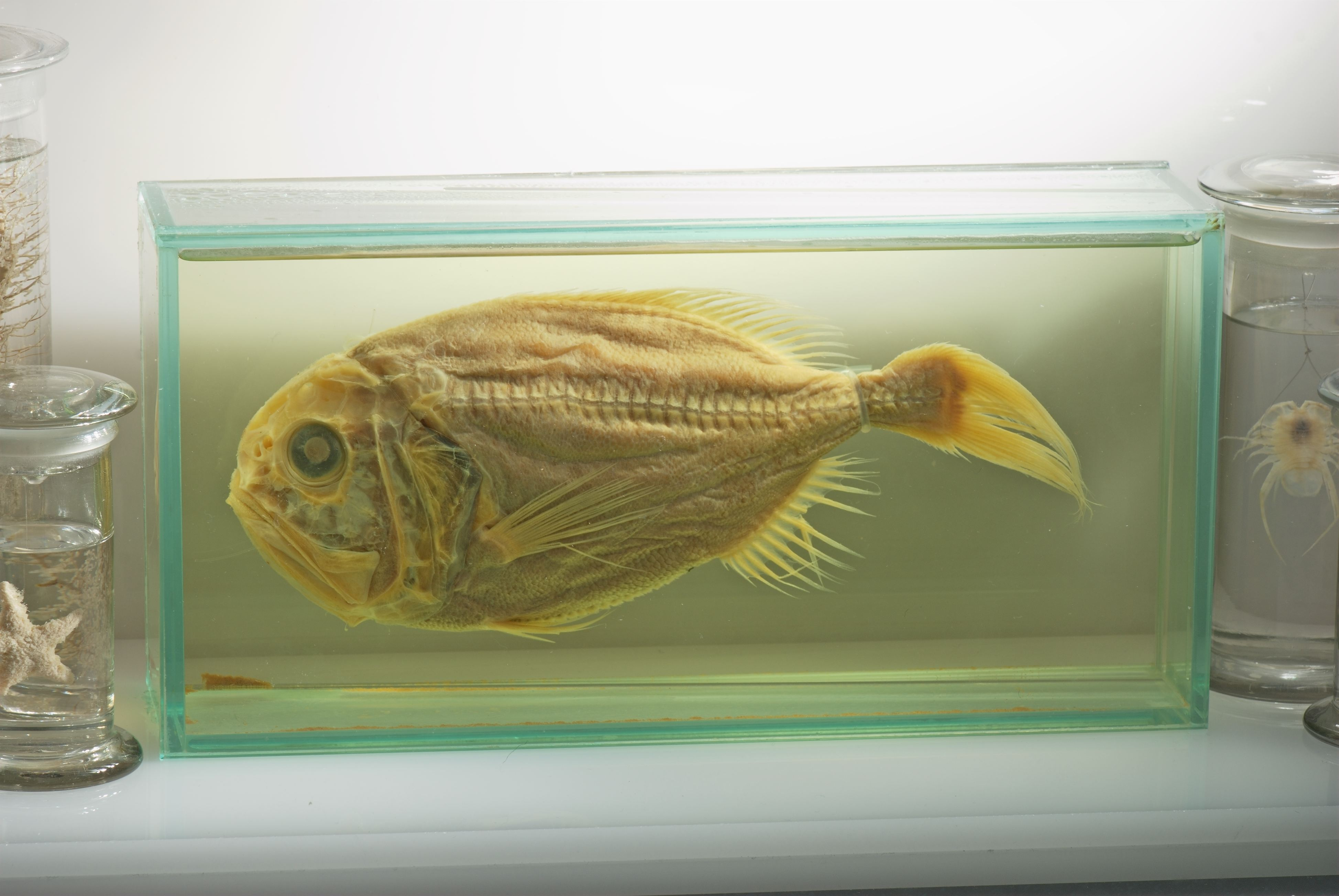 Orange Roughy (Hoplostethus atlanticus) specimen at Melbourne Museum.